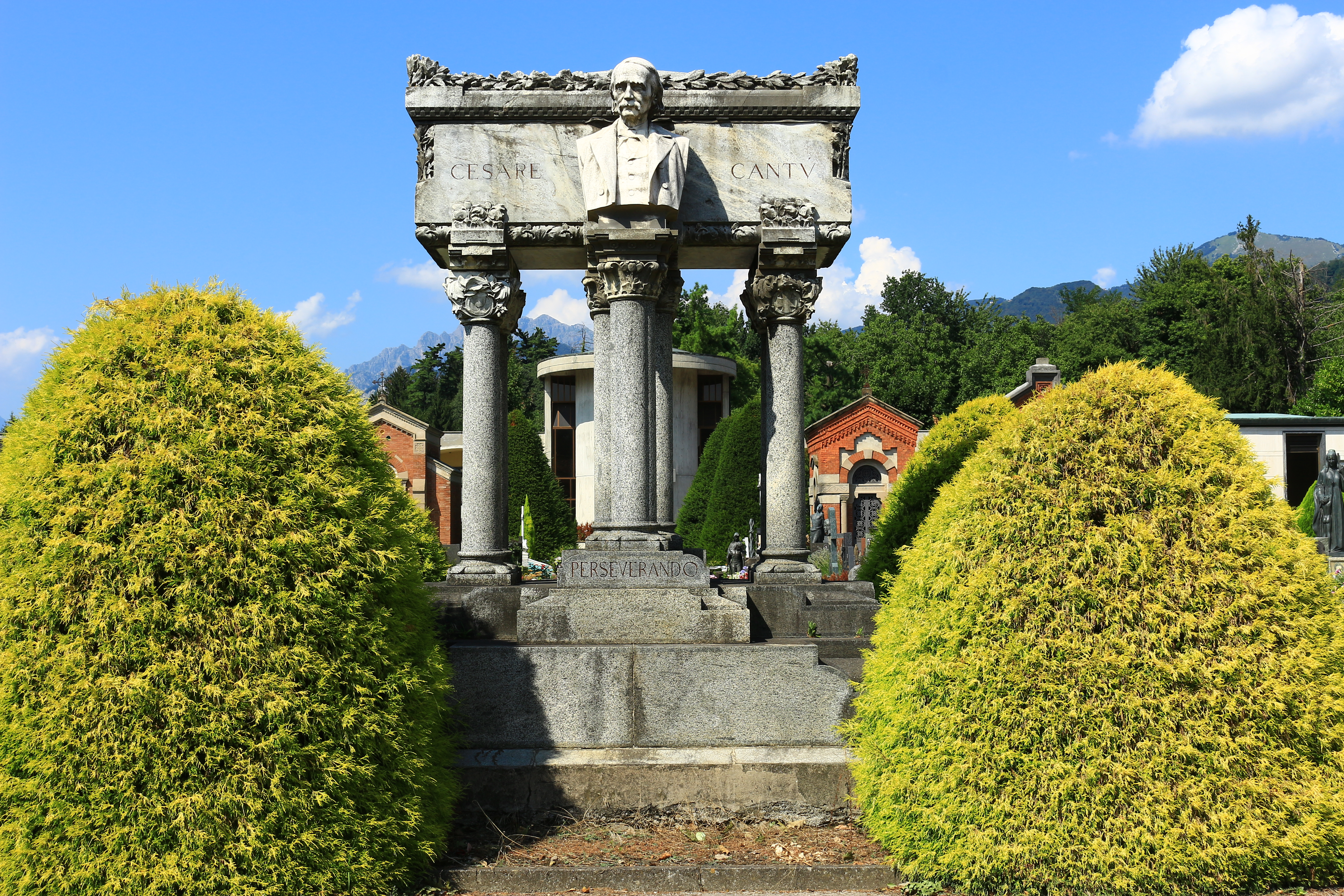 Tomba di Cesare Cantù Grave of Cesare Cantù Cimitero di Brivio Cemetry of Brivio Brivio, Italy August 2018